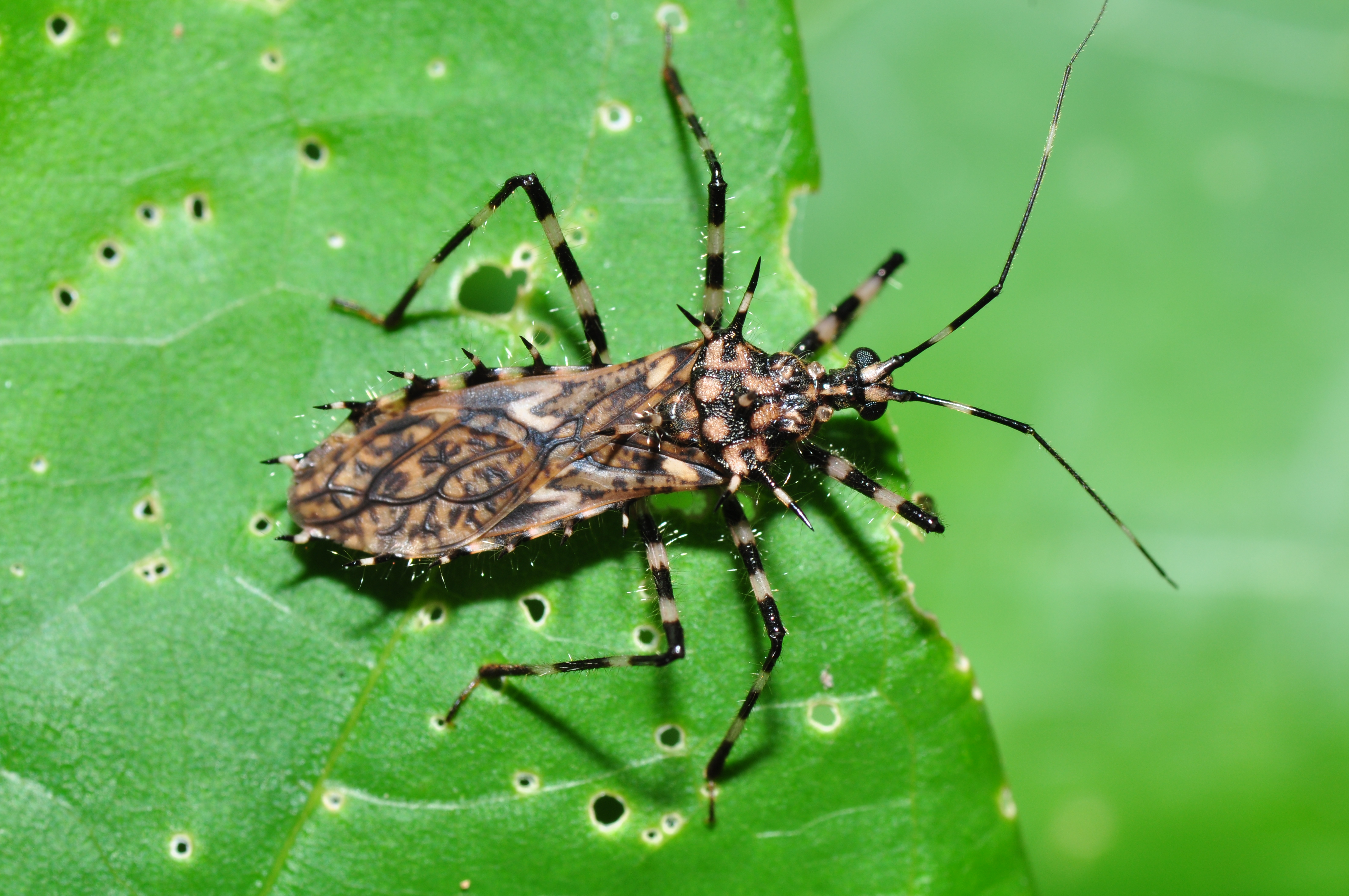 Thanks to Bernard Dupont for ID